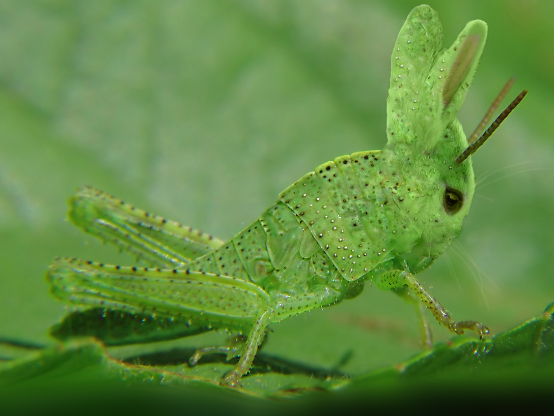 Rabbit Grasshoper Mutant Mutation Photomontage